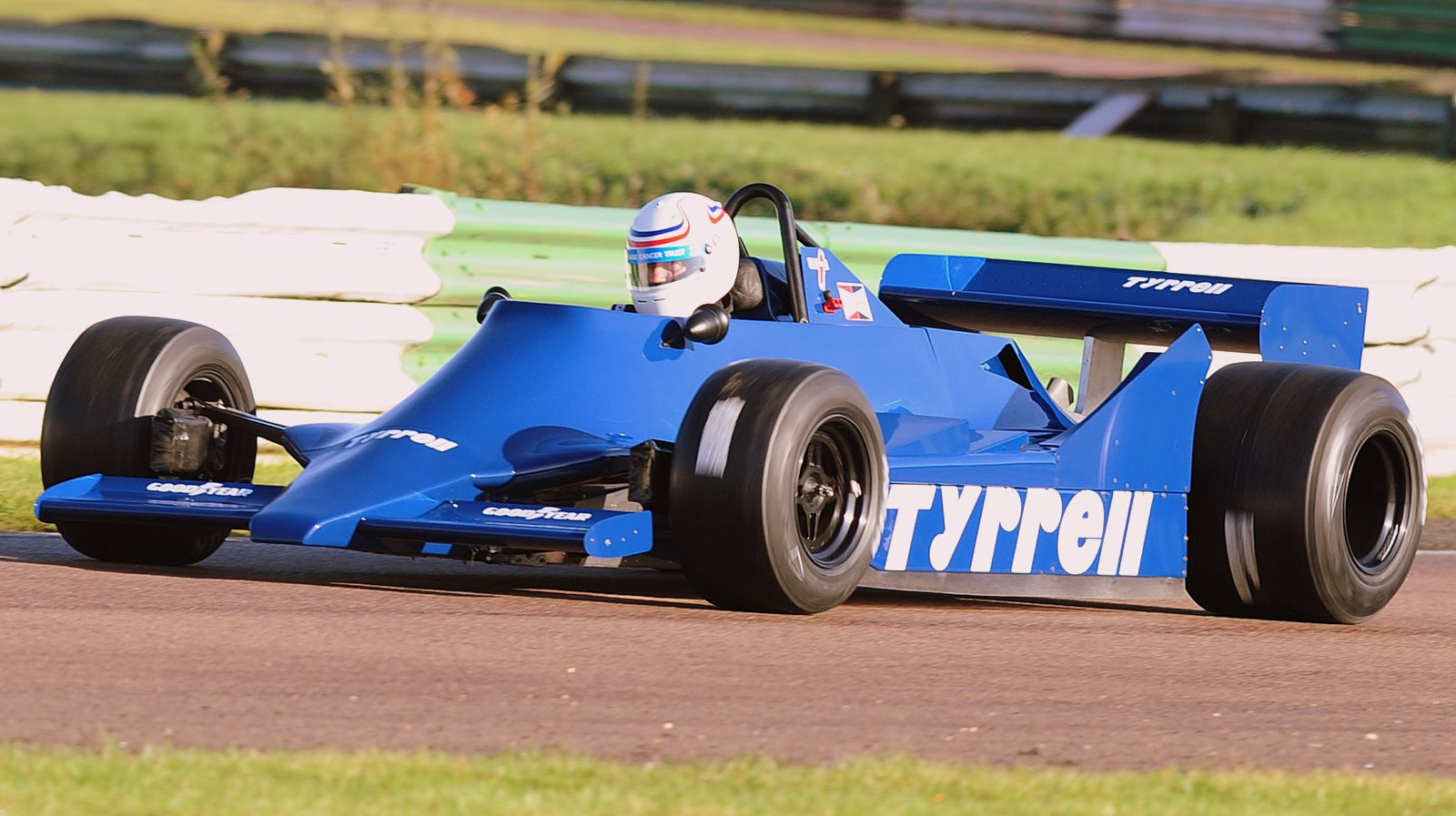 A Tyrrell 009 Formula One car, on test at Mallory Park, October 2008.